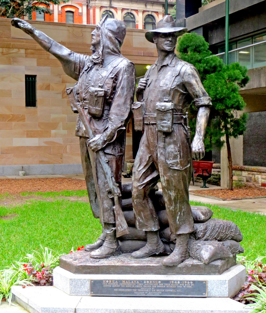 Location: Anzac Square Artist: Rhyl Hinwood Materials: Bronze figures, granite plinth Installation date: 1996